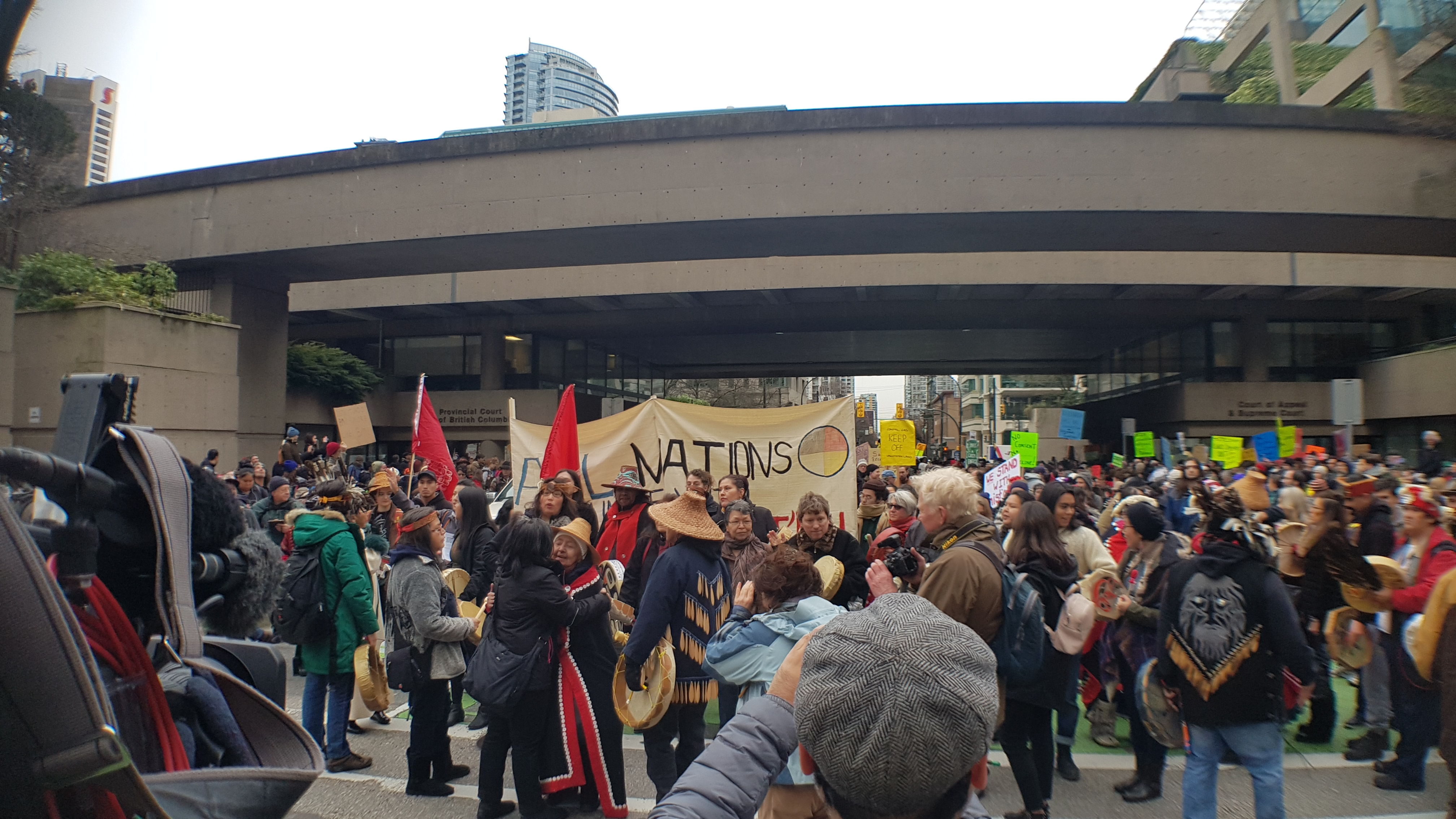 A large group of protesters gather with signs and flags outside the Law Courts building at Howe St and Smithe St in Vancouver in solidarity with Wet'suwet'en hereditary chiefs.